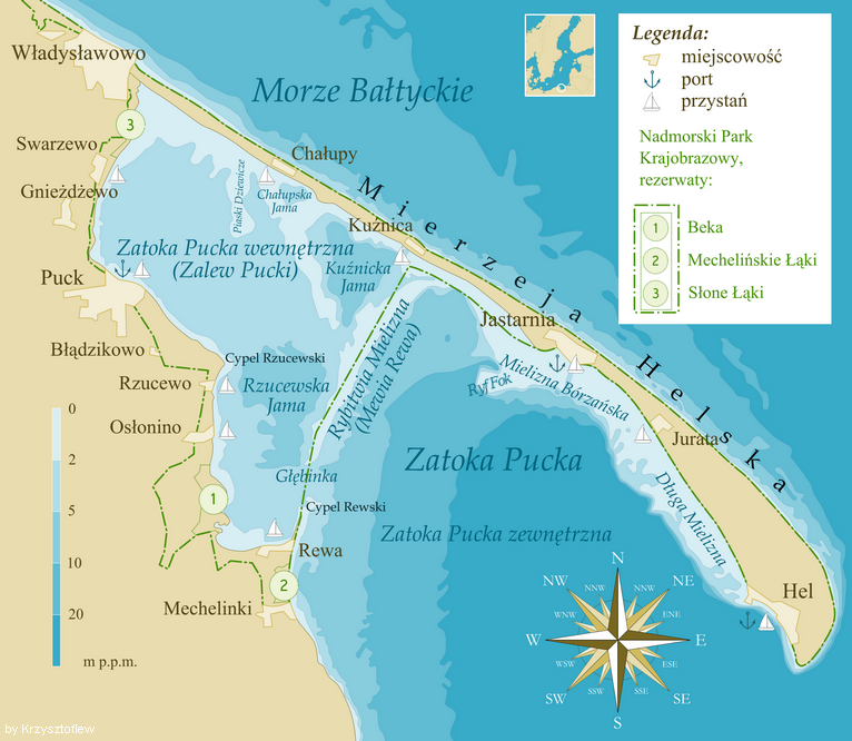 map of bay of puck